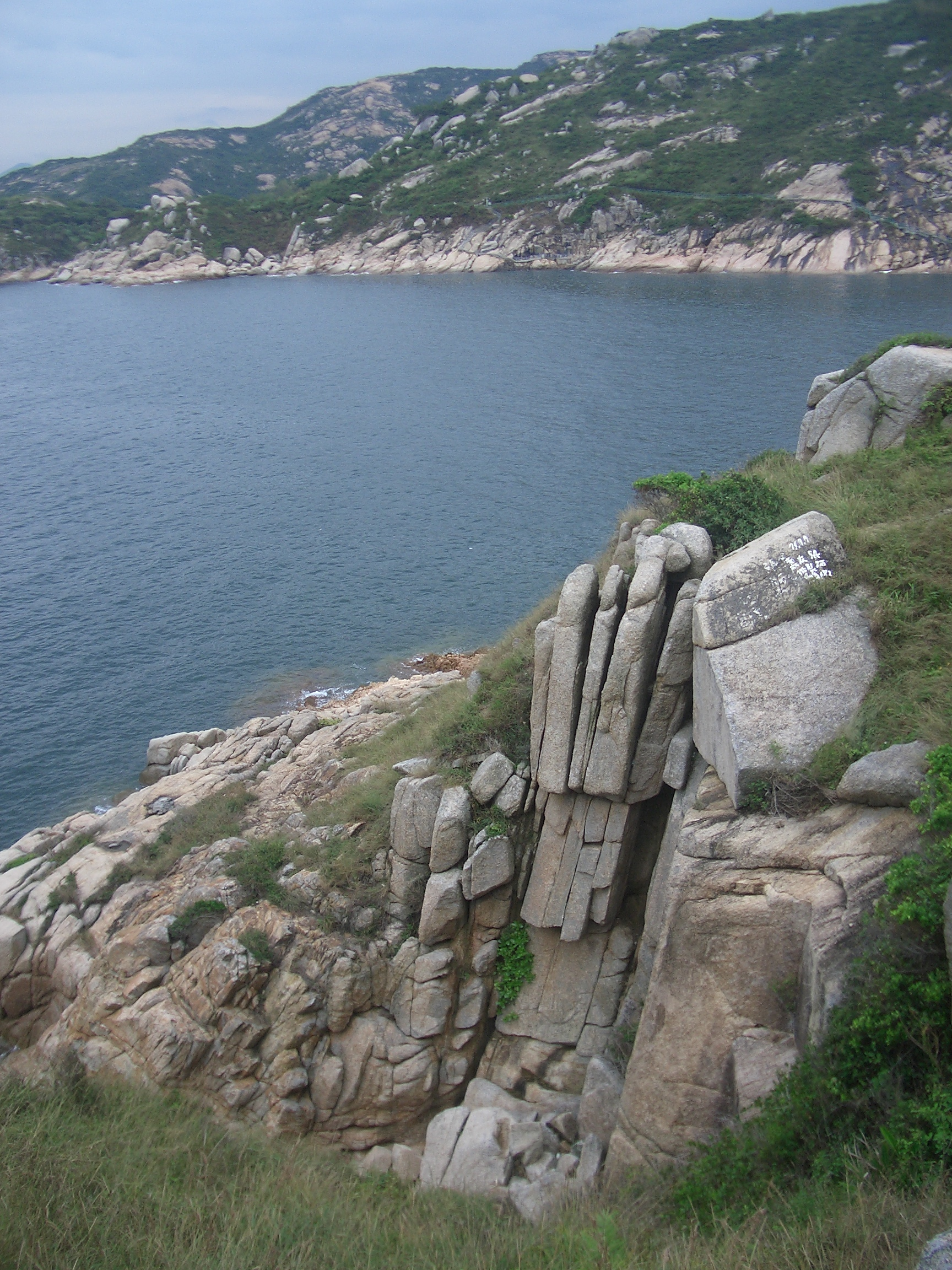 Palm Cliff (佛手崖), resembling the shape of a human hand